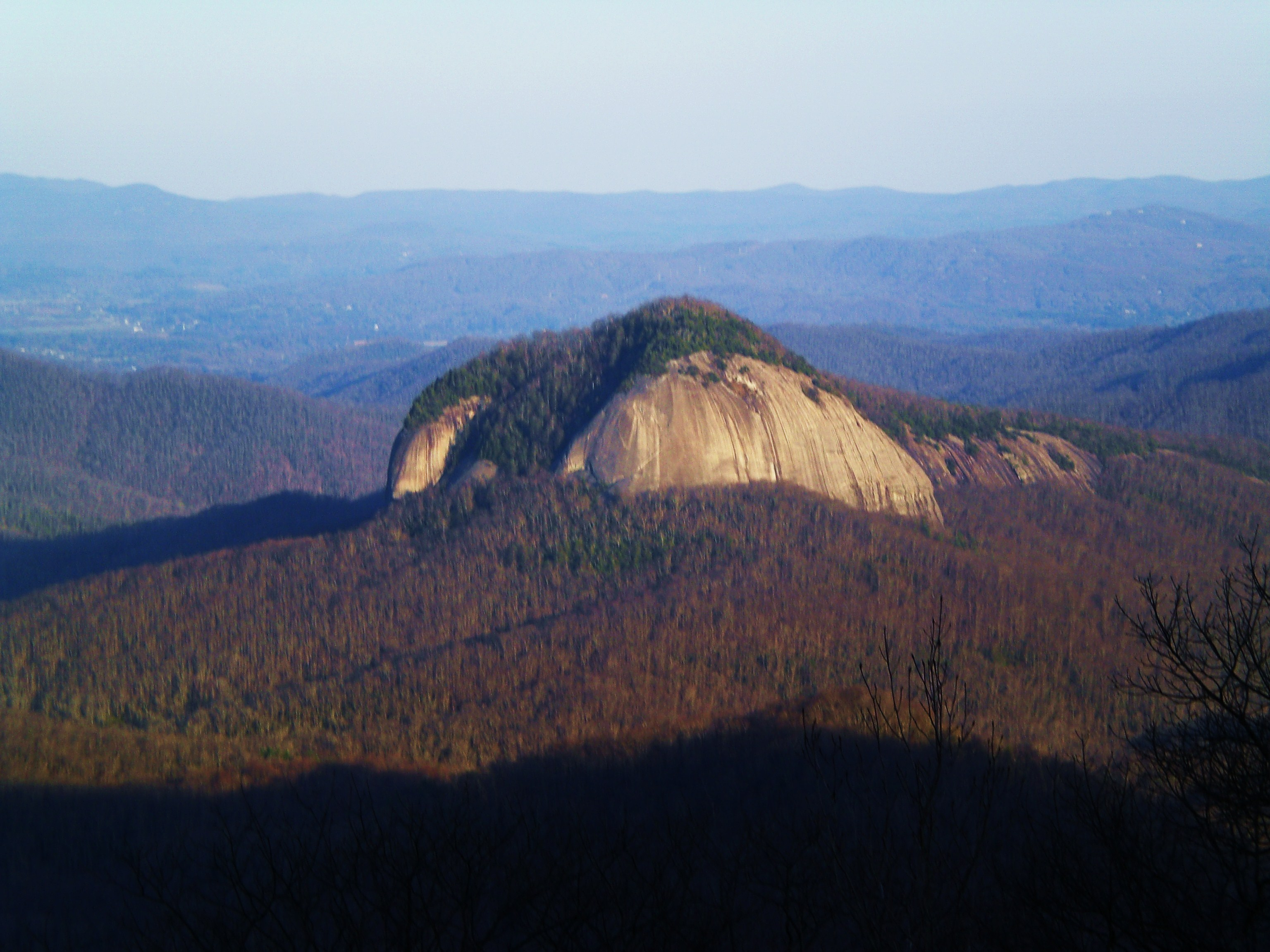 Looking Glass Rock, located in the Appalachin Mountains near Brevard, North Carolina.